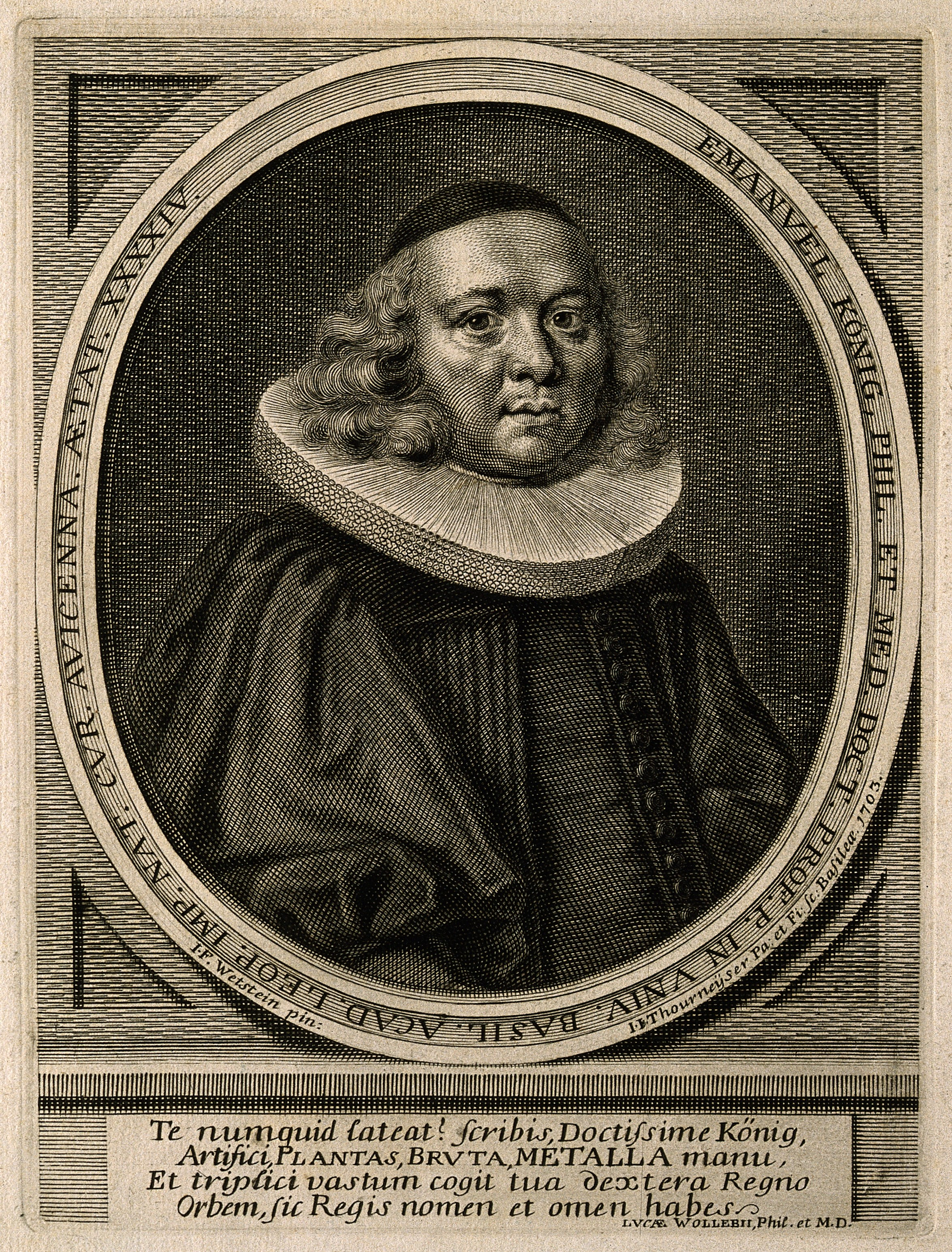 Emanuel Koenig. Line engraving by J. J. Thourneyser, senior & junior, 1703, after J. F. Wetstein. Iconographic Collections Keywords: portrait prints; engravings; Emanuel Koenig